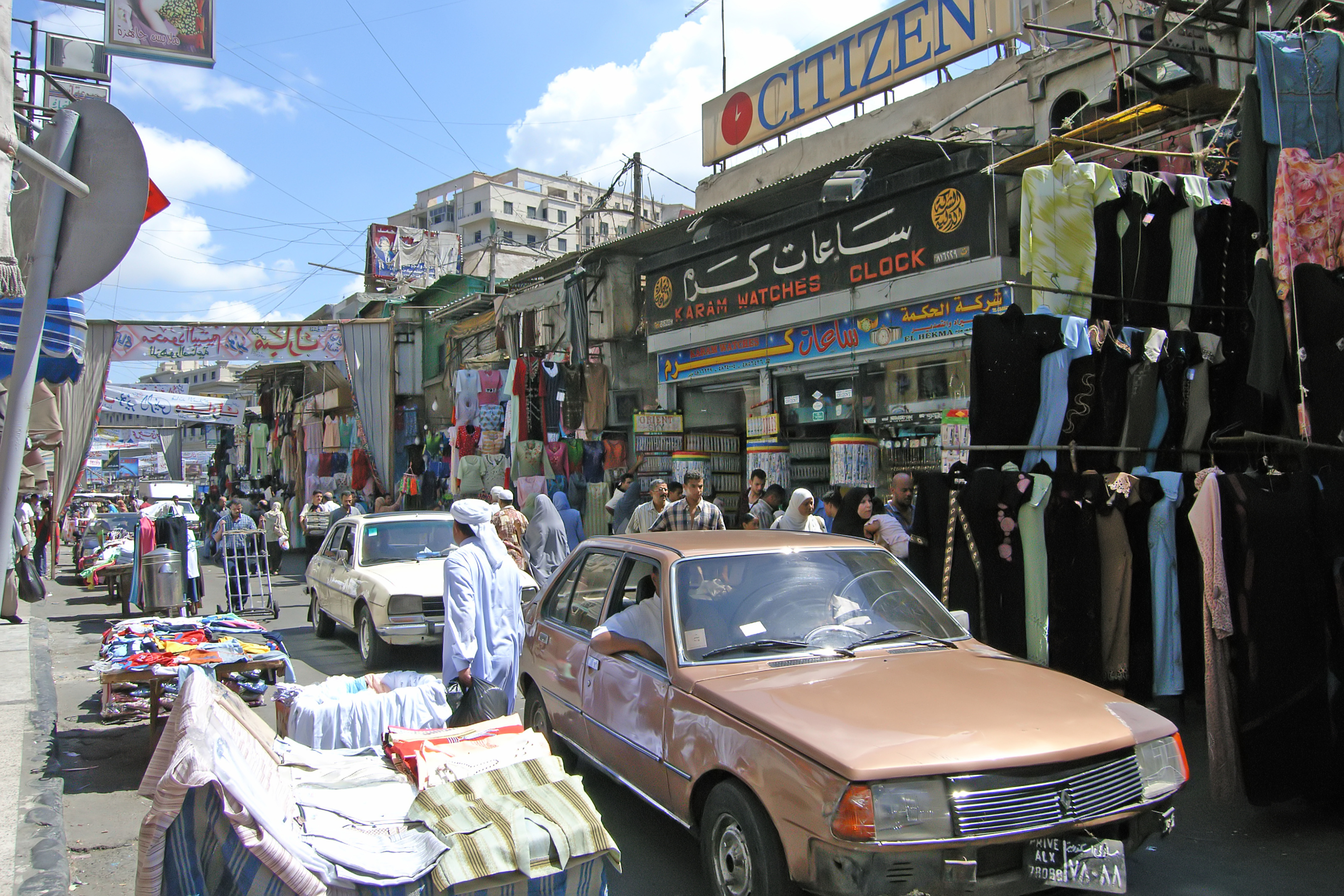 Basar to the northwest of Midan al-Manschīya, Alexandria, Egypt